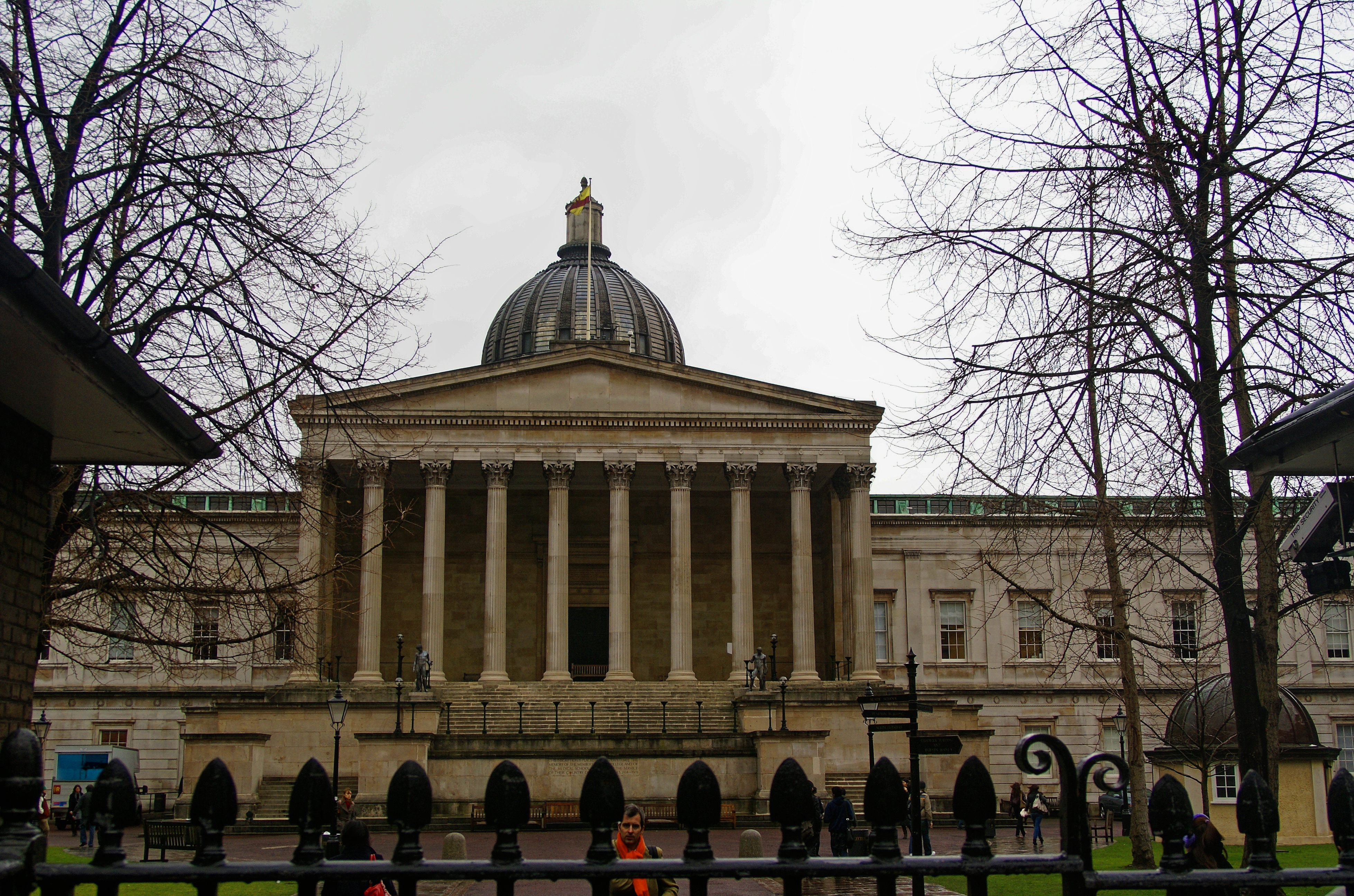 London - Gower Street - University College London 1827 William Wilkins